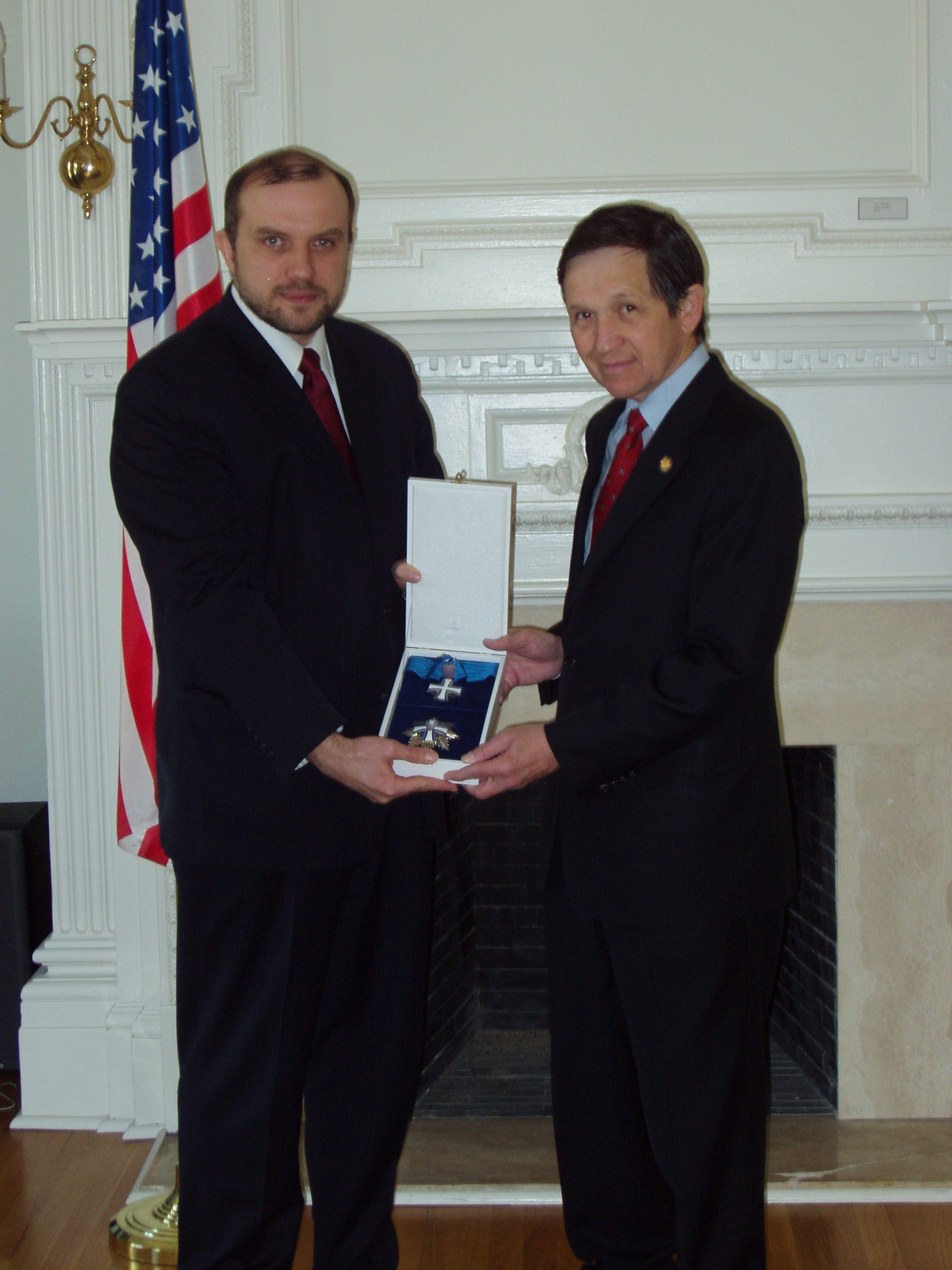 Estonian Embassy. Ambassador Juri Luik presents Congressman Kucinich with the Second Class Order of Terra Mariana for his support of the Baltic States. The Second Class Order of Terra Mariana is one of the highest honors awarded by the Republic of Estonia.